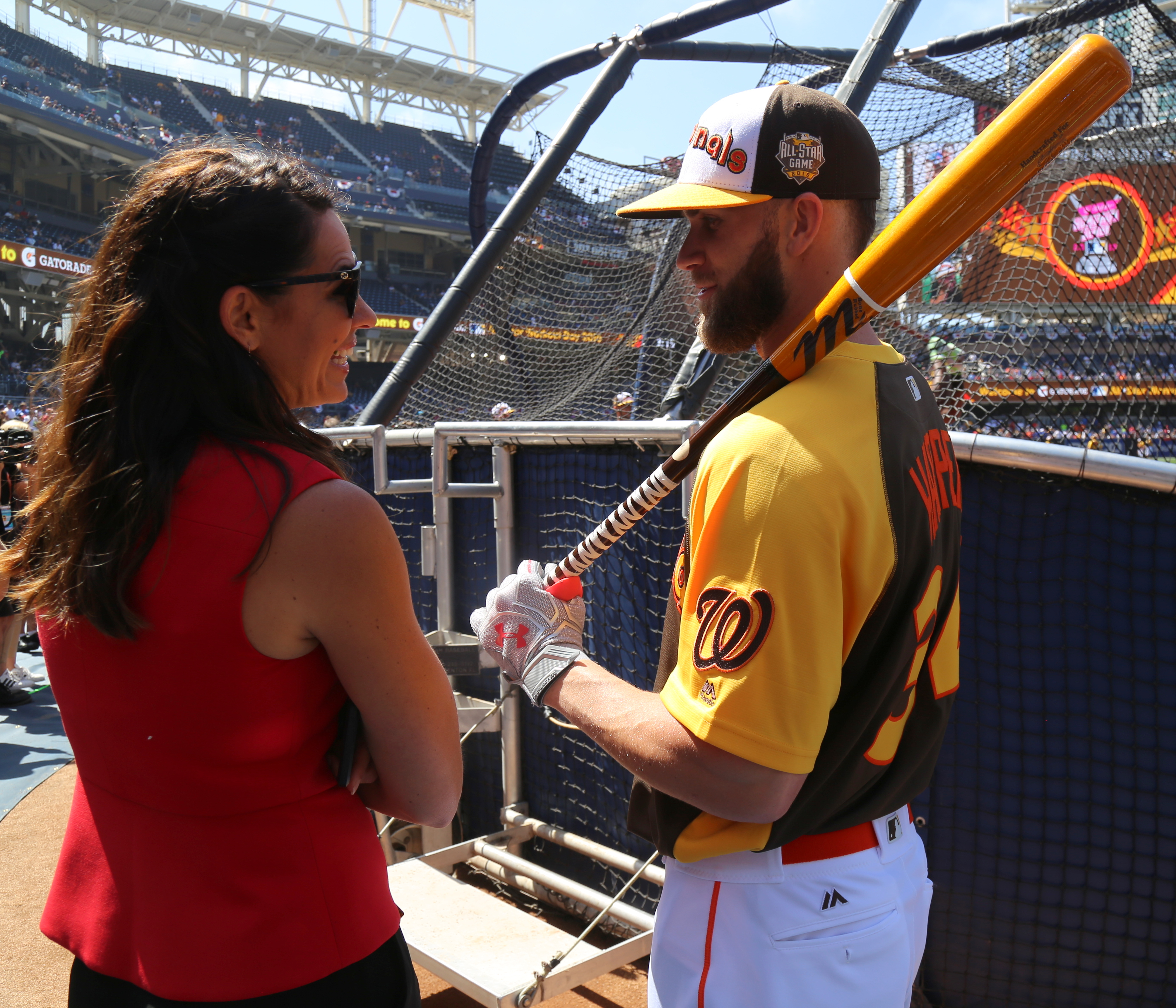 ESPN's Jessica Mendoza chats with Bryce Harper on Gatorade All-Star Workout Day.